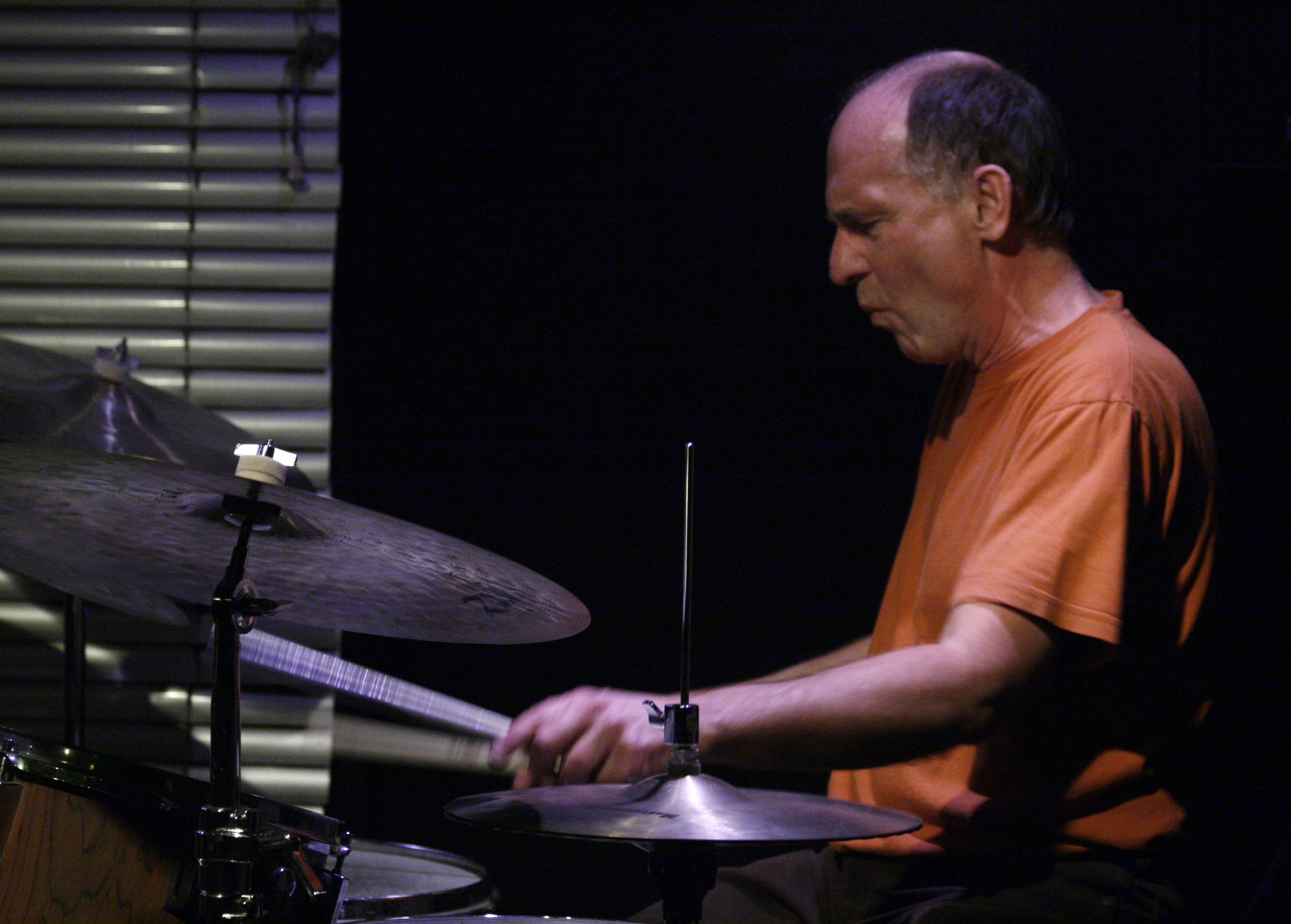 Wolfgang Reisinger during a session with Andy Manndorff (g.) and Lisle Ellis (b.) at the Blue Tomato in Vienna (Austria).